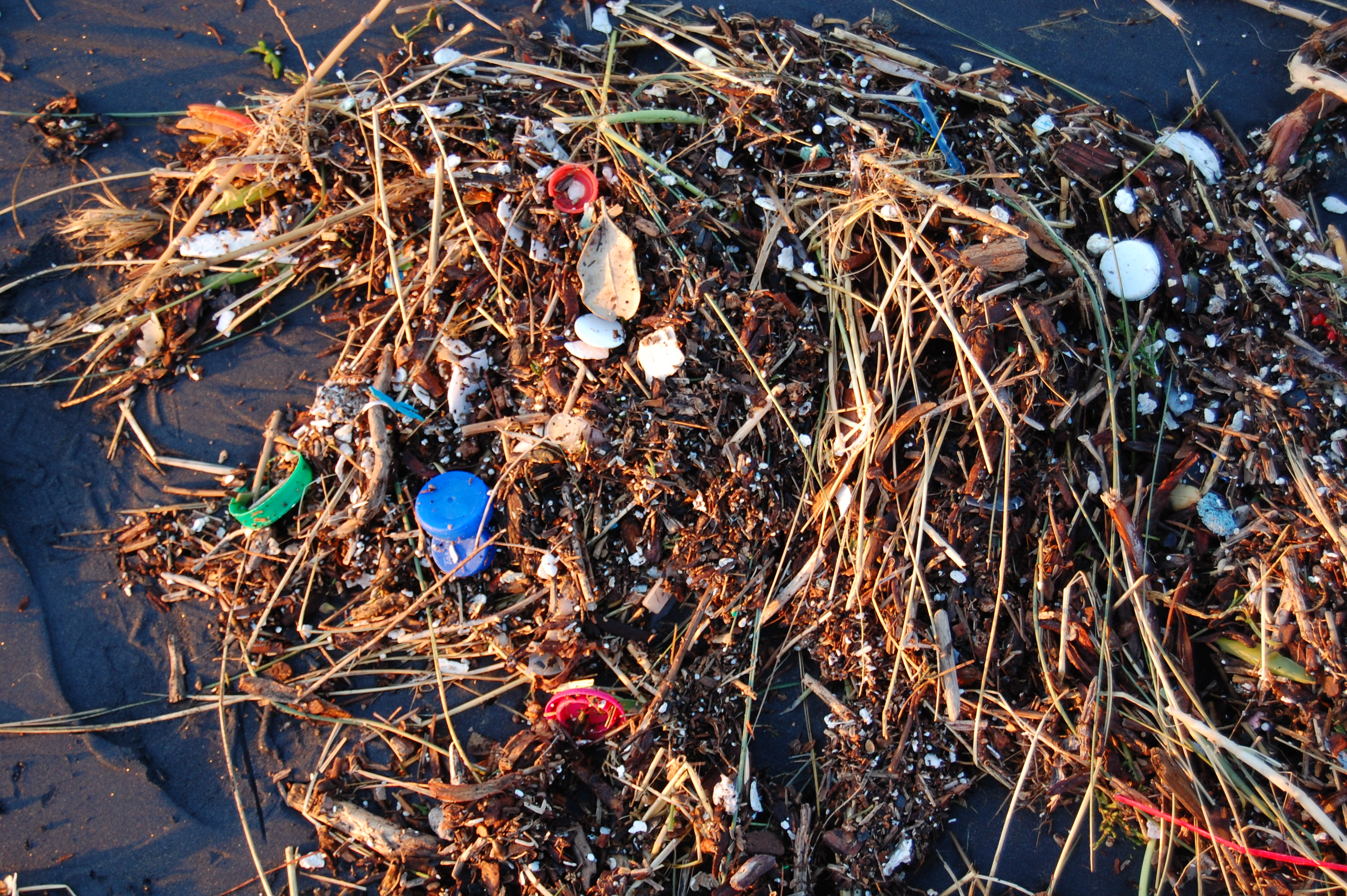 Pieces of plastic that washed ashore after a storm. Pacific Ocean beach in San Francisco.